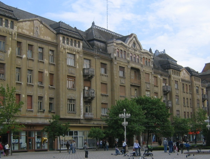 Löffler Palace, Timisoara, Romania. Built 1912-1913, architect Leopold Löffler.